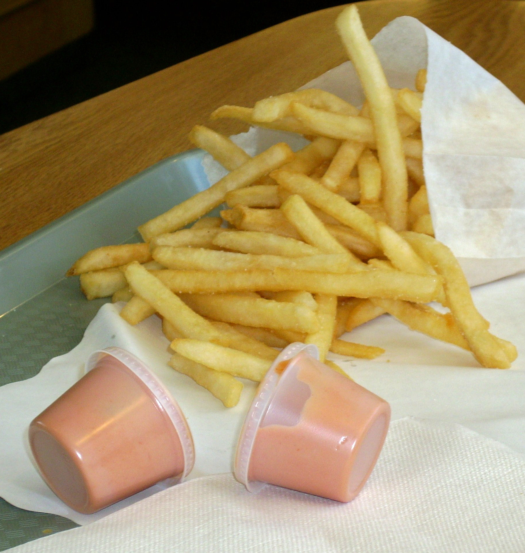 Fry sauce from a restaurant in Cedar City, Utah